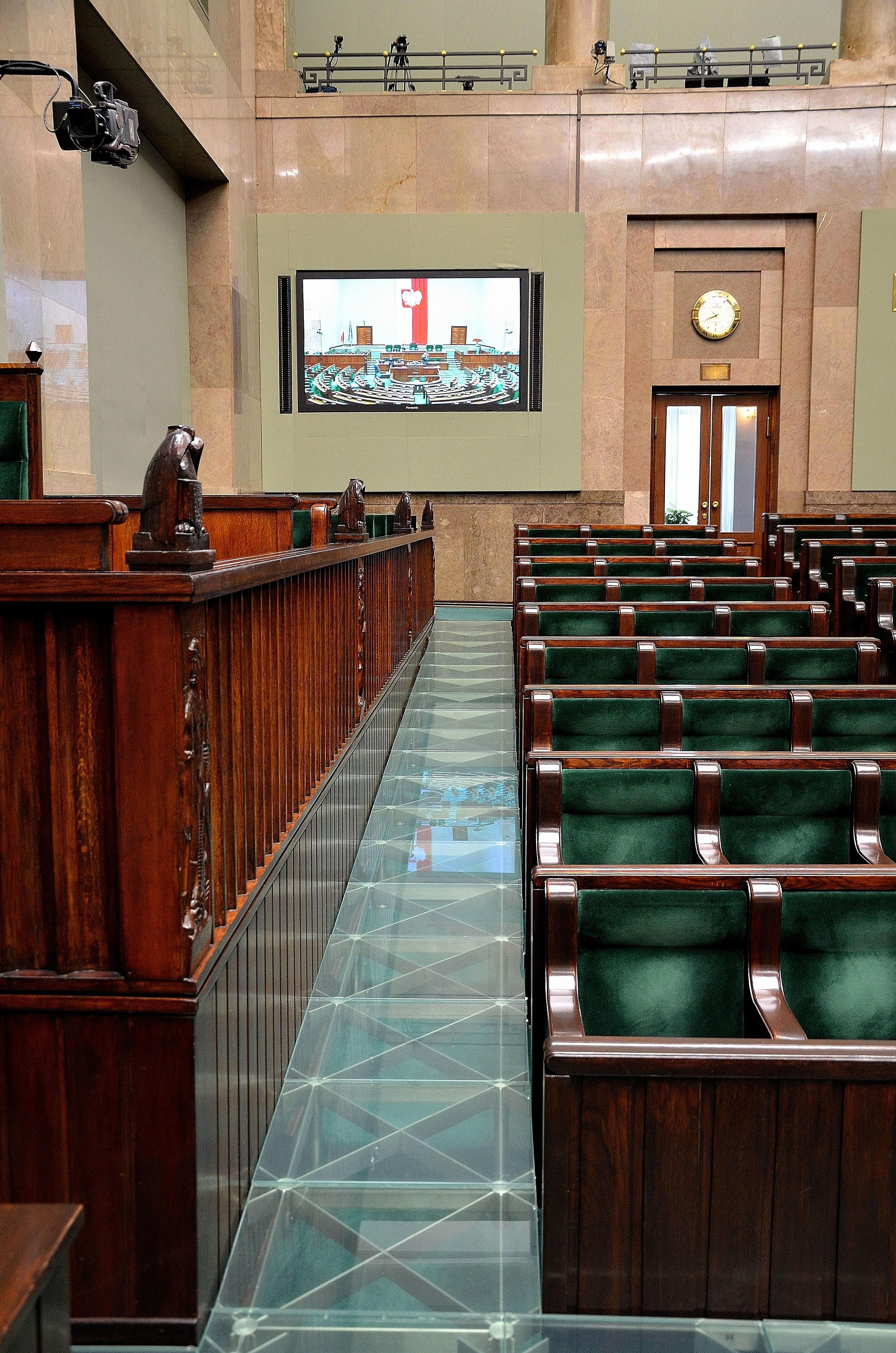 Wheelchair ramp leading to the rostrum in the Sejm Plenary Hall (Warsaw, Poland)